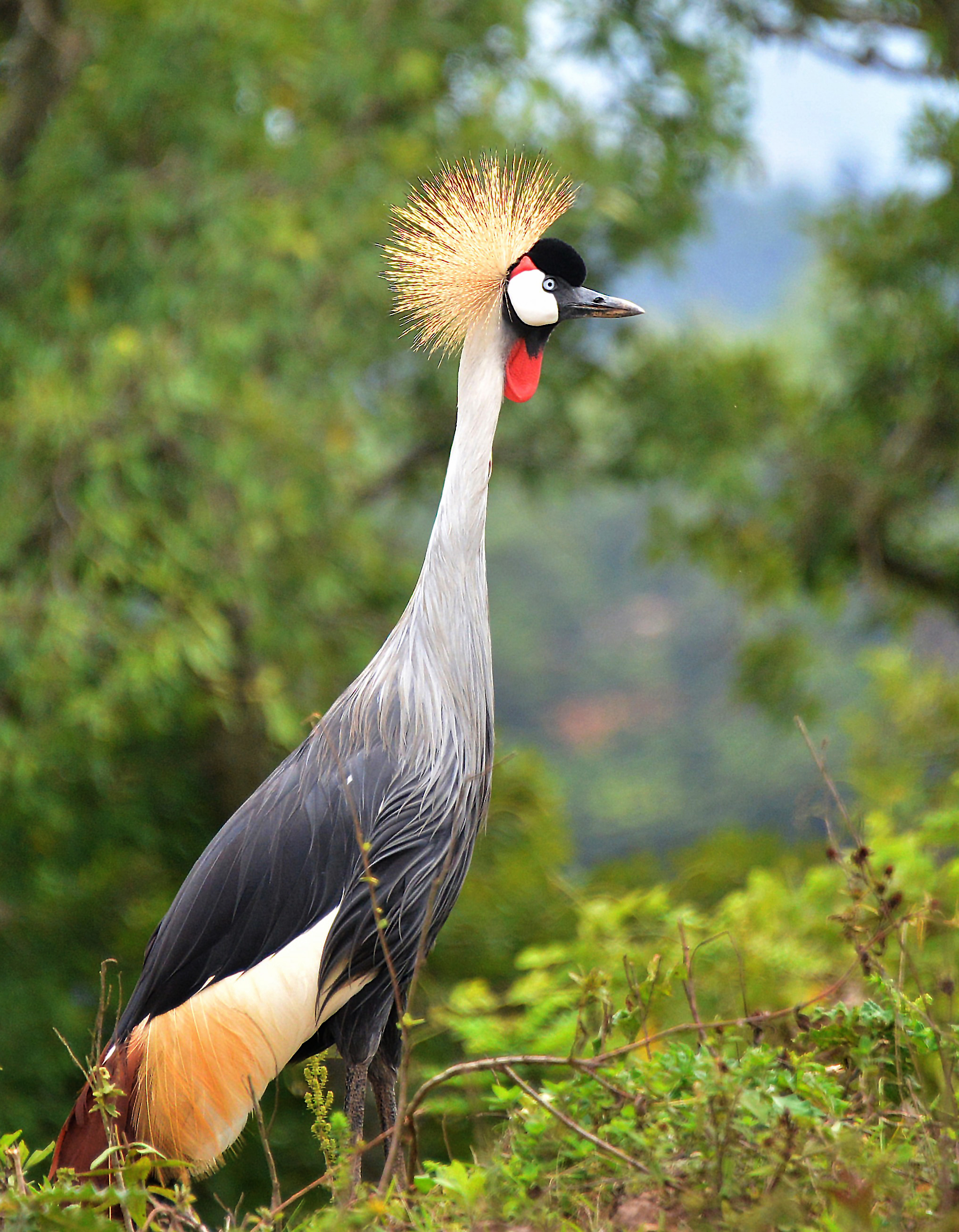 Crested Crane, Bunyonyi, Uganda